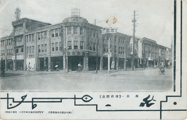 Ginza, Takao